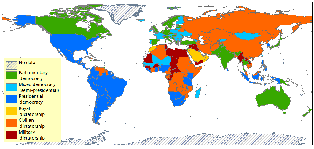 Democracies and dicatatoships in 2008, based on DD index.